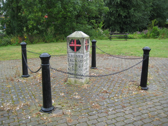 River Thames: Truss's Island See 911793. This inscribed stone was erected by the City of London in 1804 to thank Charles Truss for 30 years' service in maintaining the navigability of the river.